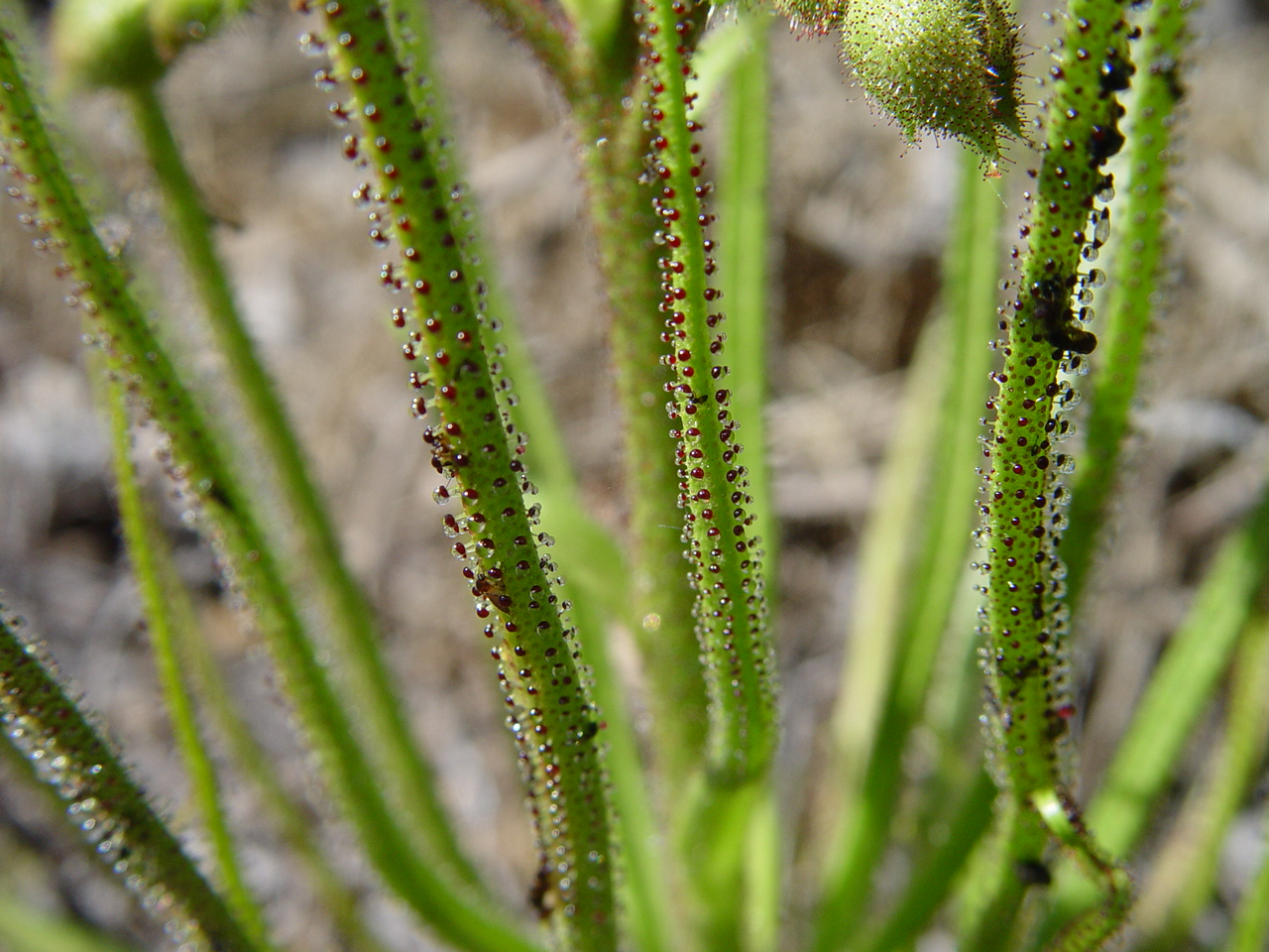 Name Drosophyllum lusitanicum Familiy Drosophyllaceae